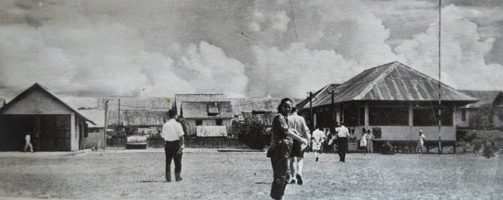 Picture shows passengers alighting from the plane and walking towards the old Bintulu airport departure/arrival hall (right). Private houses are shown in the background. The Bintulu airport building and private houses were both made of strong Belian wood.